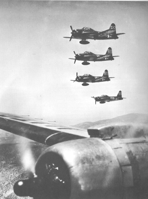 Ryan FR-1 Fireballs of fighter squadron VF-1E Firebirds assigned to the escort carrier USS Badoeng Strait (CVE-116) in 1947. The Ryan FR Fireball was a composite propeller and jet powered aircraft designed for the United States Navy during the Second World War. Note that the FR-1s are flying on jet power only with propeller engines turned off. Part of a NATC aircraft (C-47?) is visible in the foreground.